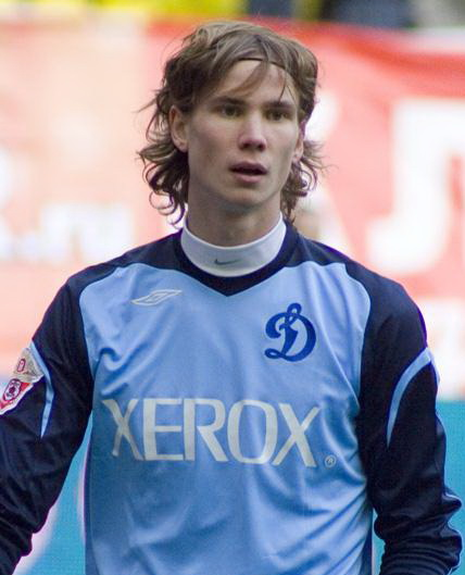 Anton Shunin